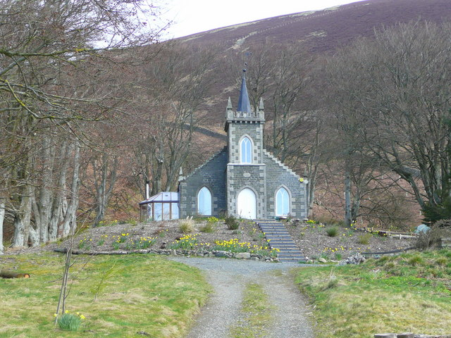 Le Craobhan Treun The romantic name for this kirk, now a private house, at Cappercleuch. According to the lyric of Runrig's 'An Ubhal As Airde' (The Highest Apple), the name means "with mighty trees". The hillside beyond is the southern slope of Capper Law..